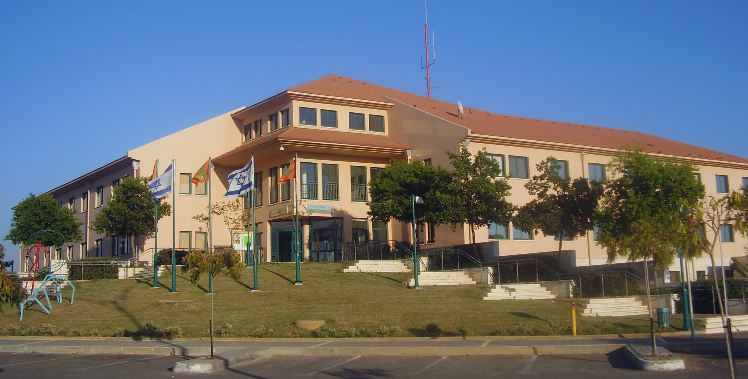 The offices of the Drom HaSharon (South Sharon) regional council, near moshav Neve Yaraq